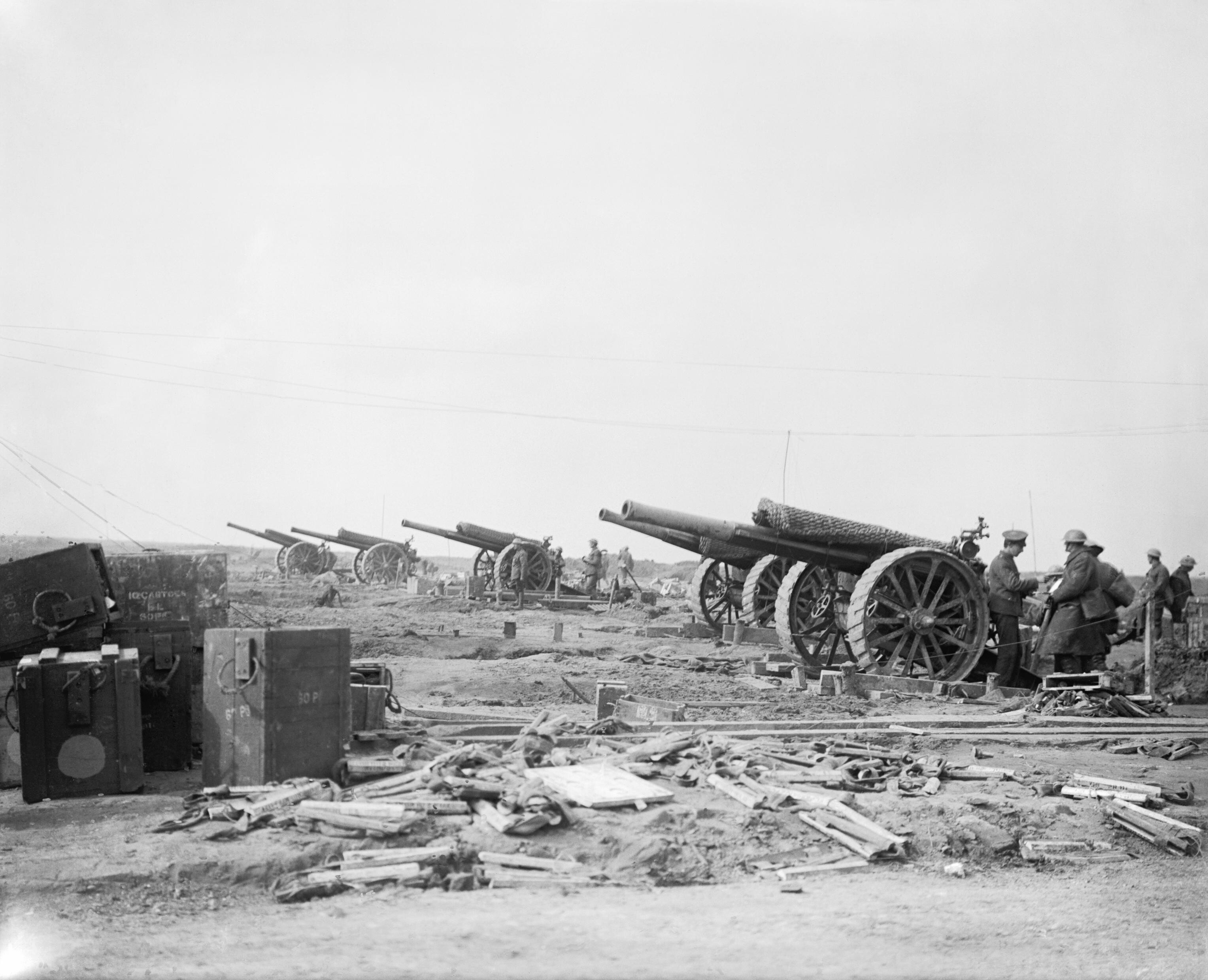 IWM description : "THE BATTLES OF ARRAS 9 APRIL - 15 MAY 1917". A battery of 60-pounder guns in an open position near Feuchy chapel. Comment : These are BL 60 pounder Mk I guns, on Mk II carriages. The carriages have 5 ft steel tractor wheels.